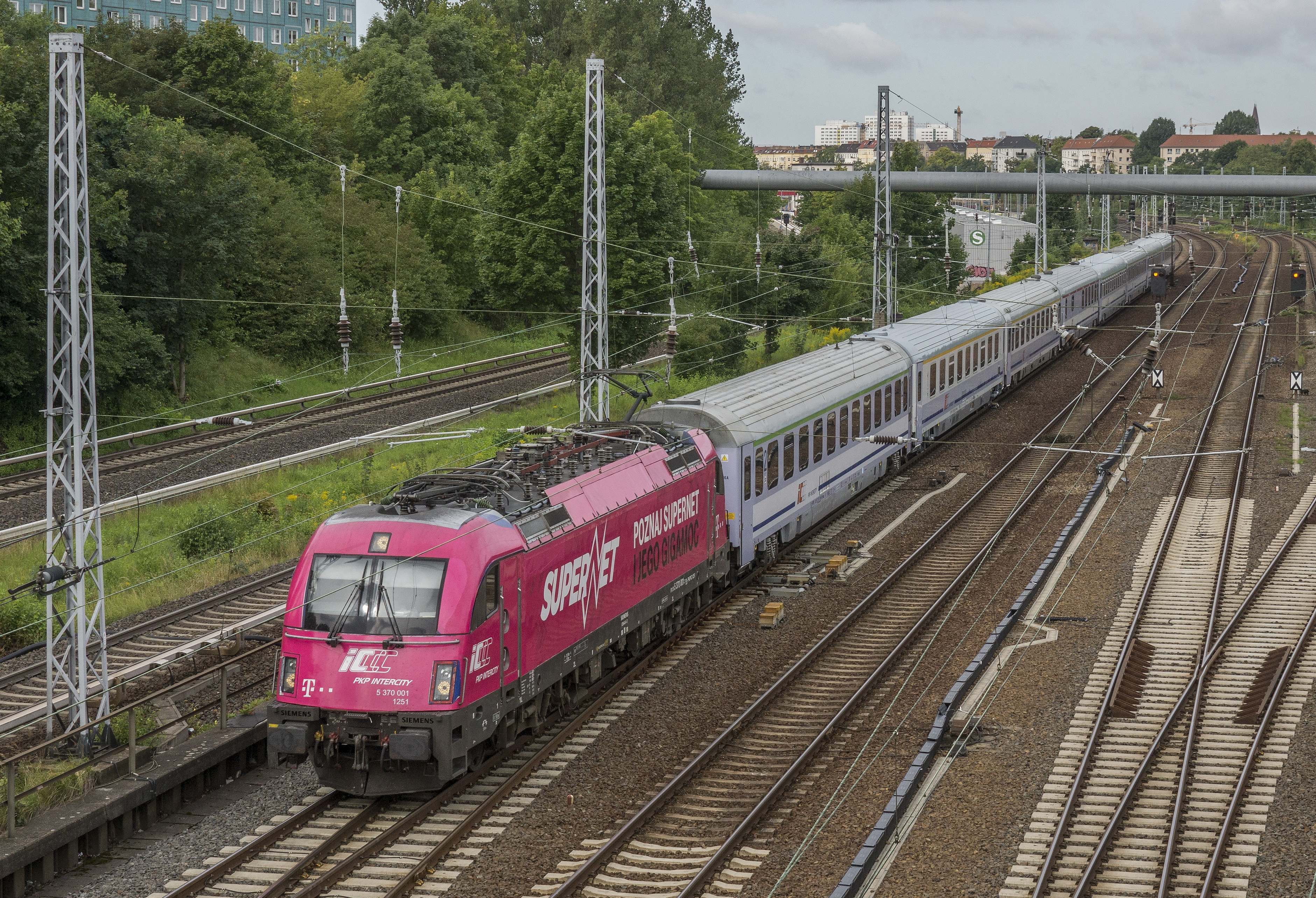 EuroCity train EC 43 from Berlin Gesundbrunnen to Warszawa Wschodnia.